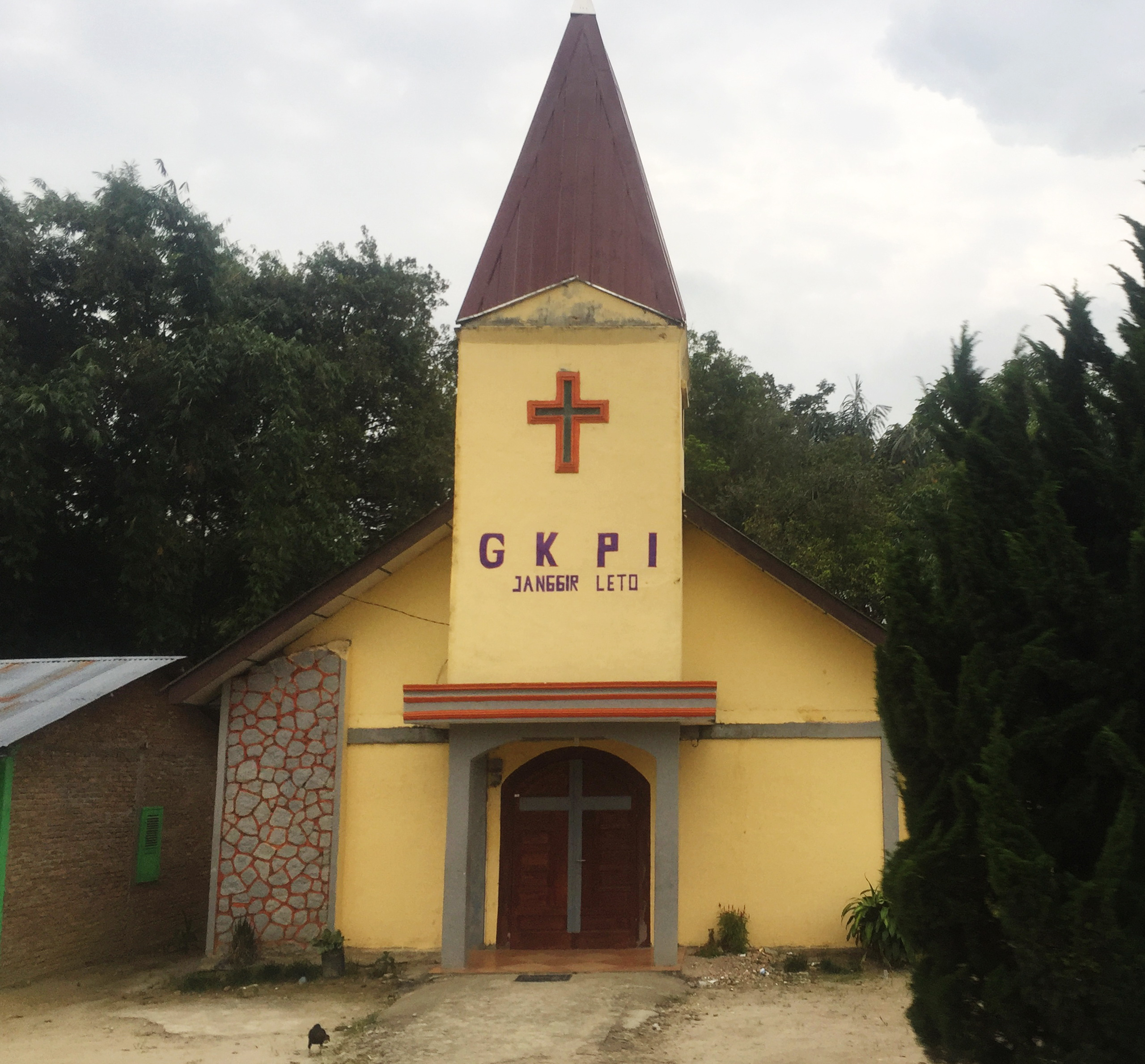 GKPI GKPI Janggir Leto, Res. Pardomuan, Church in Janggir Leto, Panei, Simalungun